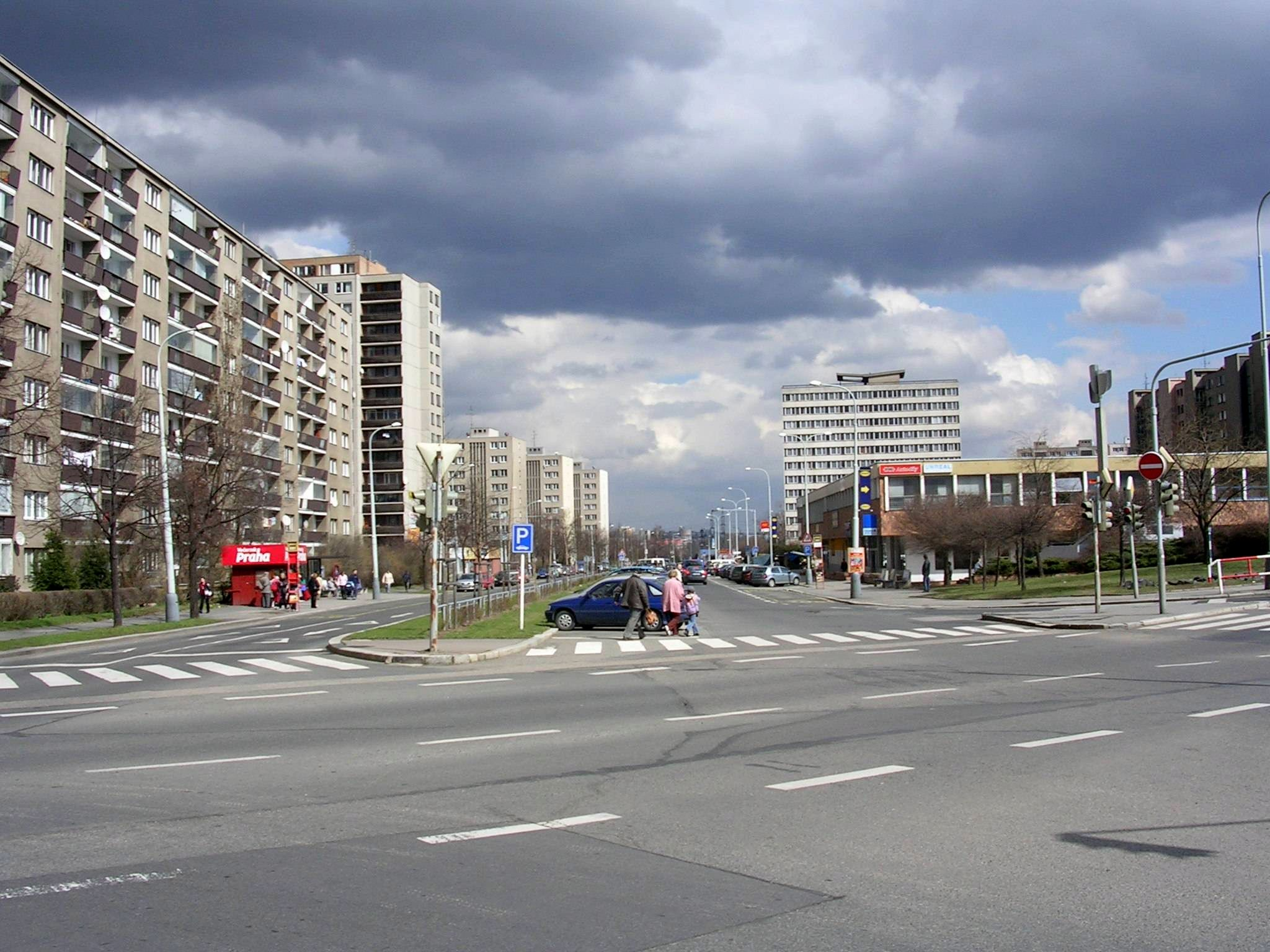 Záběhlice-Spořilov, Prague, the Czech Republic.